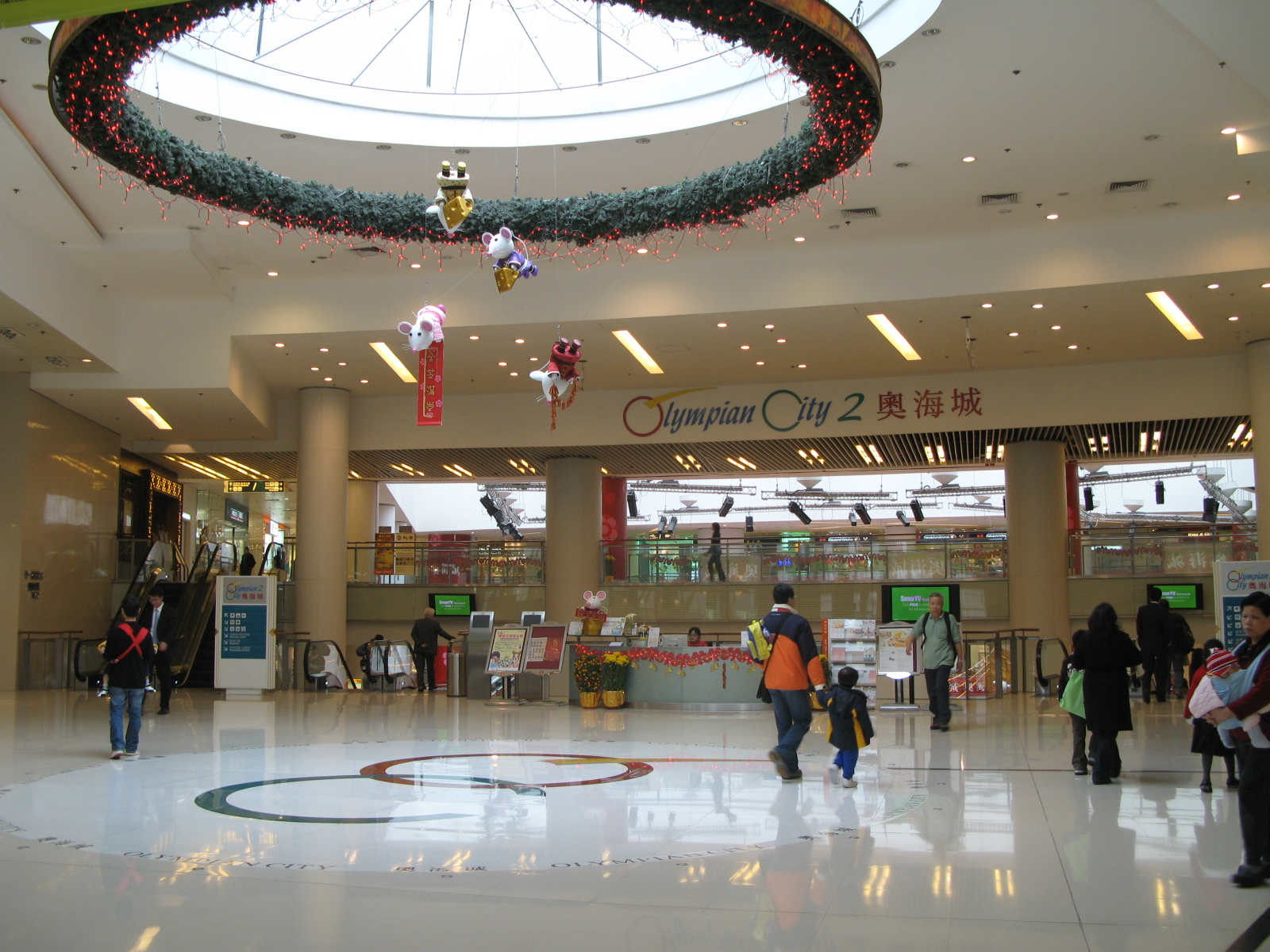 HK Olympian City Plase 2 Enterance